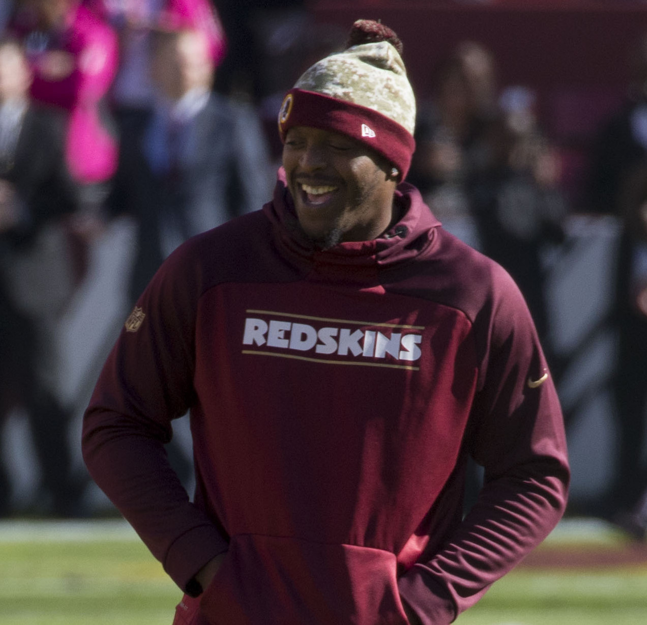 Washington Redskins tight end, Anthony McCoy, inactive in a game against the New Orleans Saints on November 15, 2015.